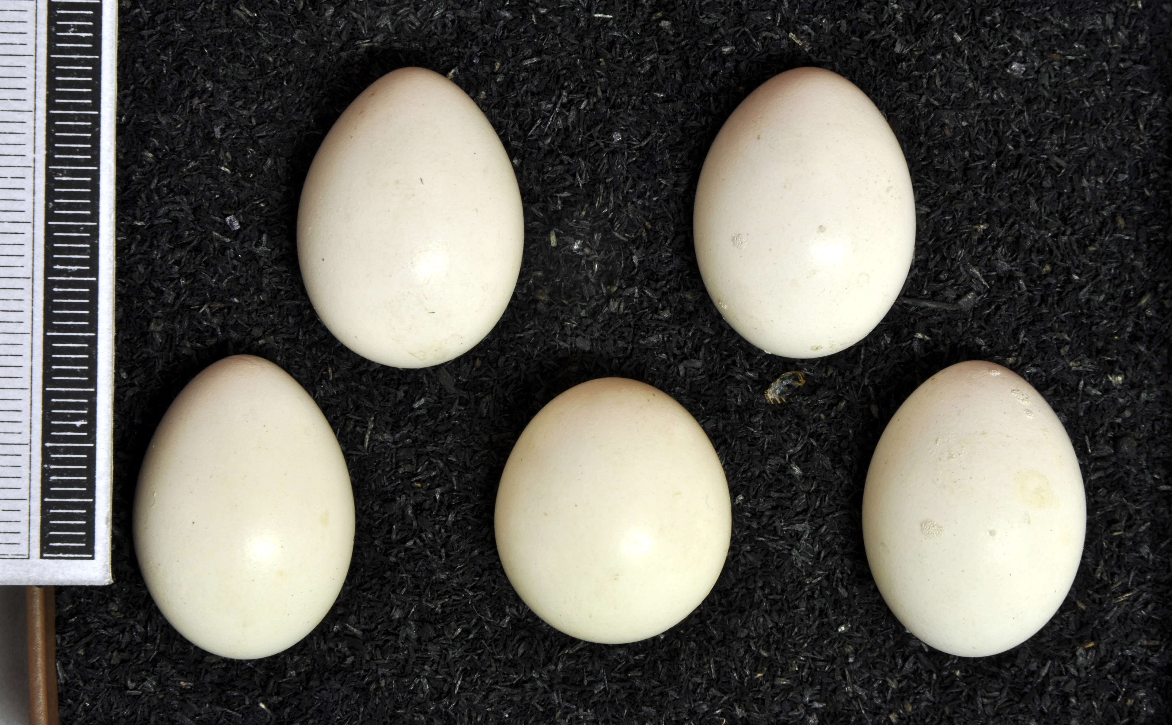 Jungle bush quail Perdicula asiatica , egg, Coll. Museum Wiesbaden